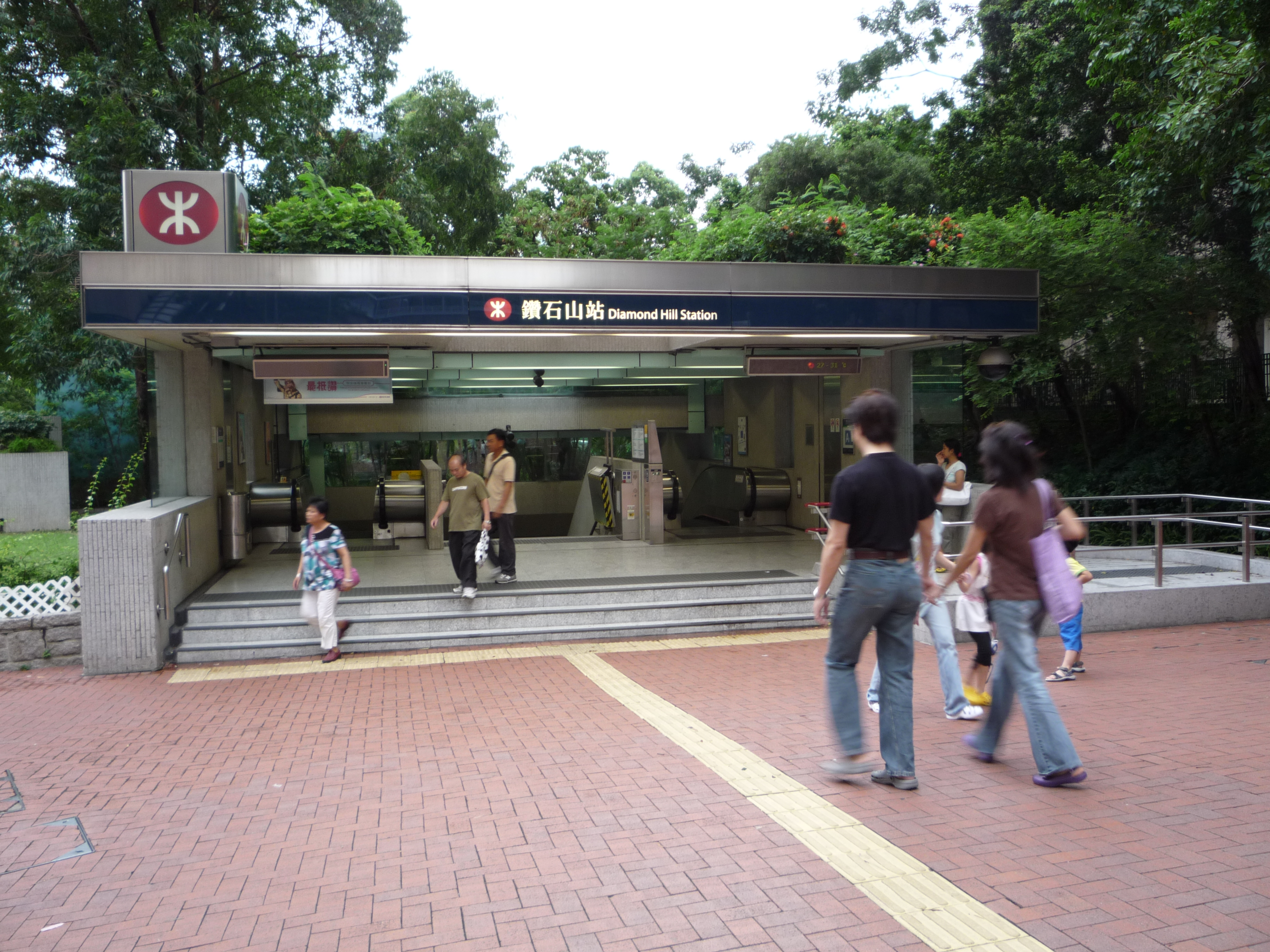 MTR Diamond Hill Station Exit A1